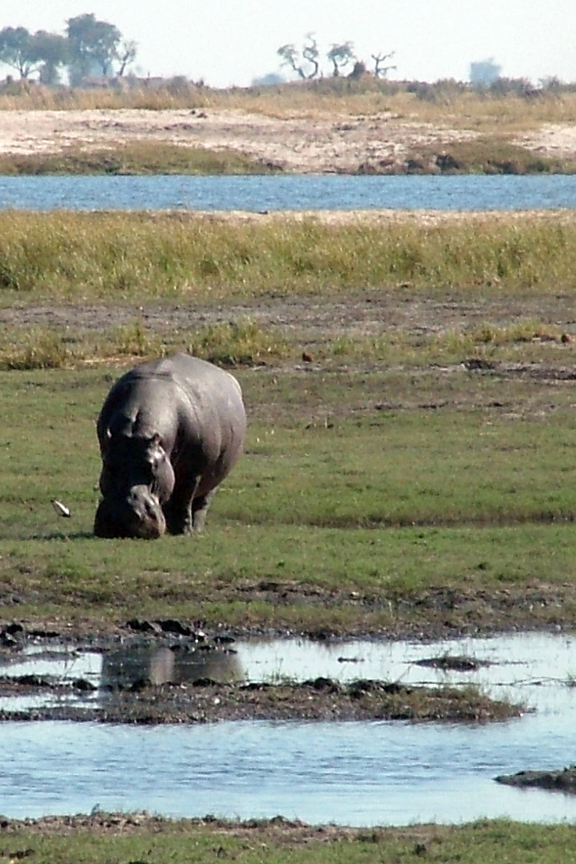 Portrait of terrain with river, Chobe riverfront, Chobe National Park, Botswana